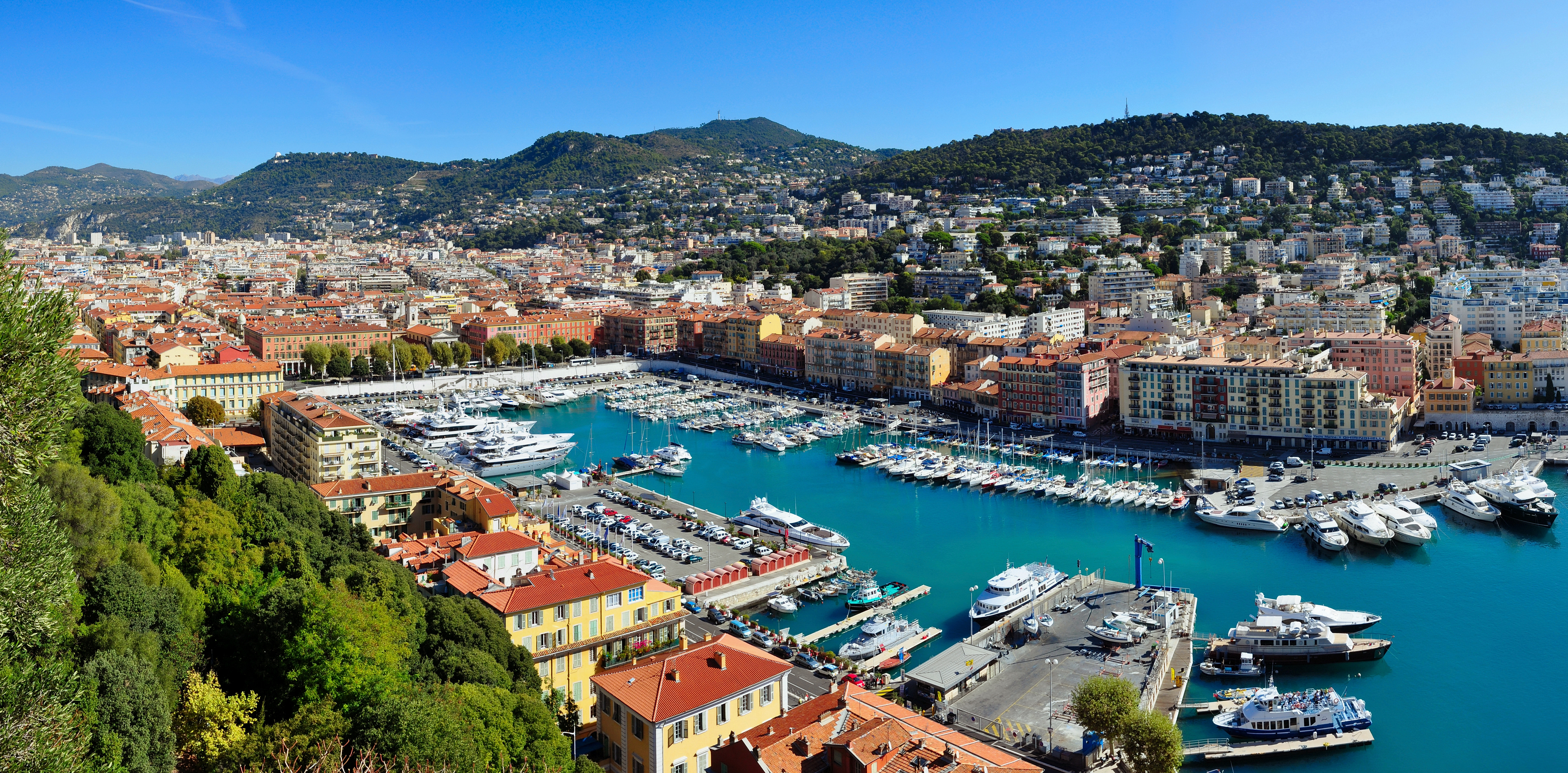 The harbour of Nice (Alpes-Maritimes, Provence-Alpes-Côte d’Azur, France), seen from the hill of the fortress.